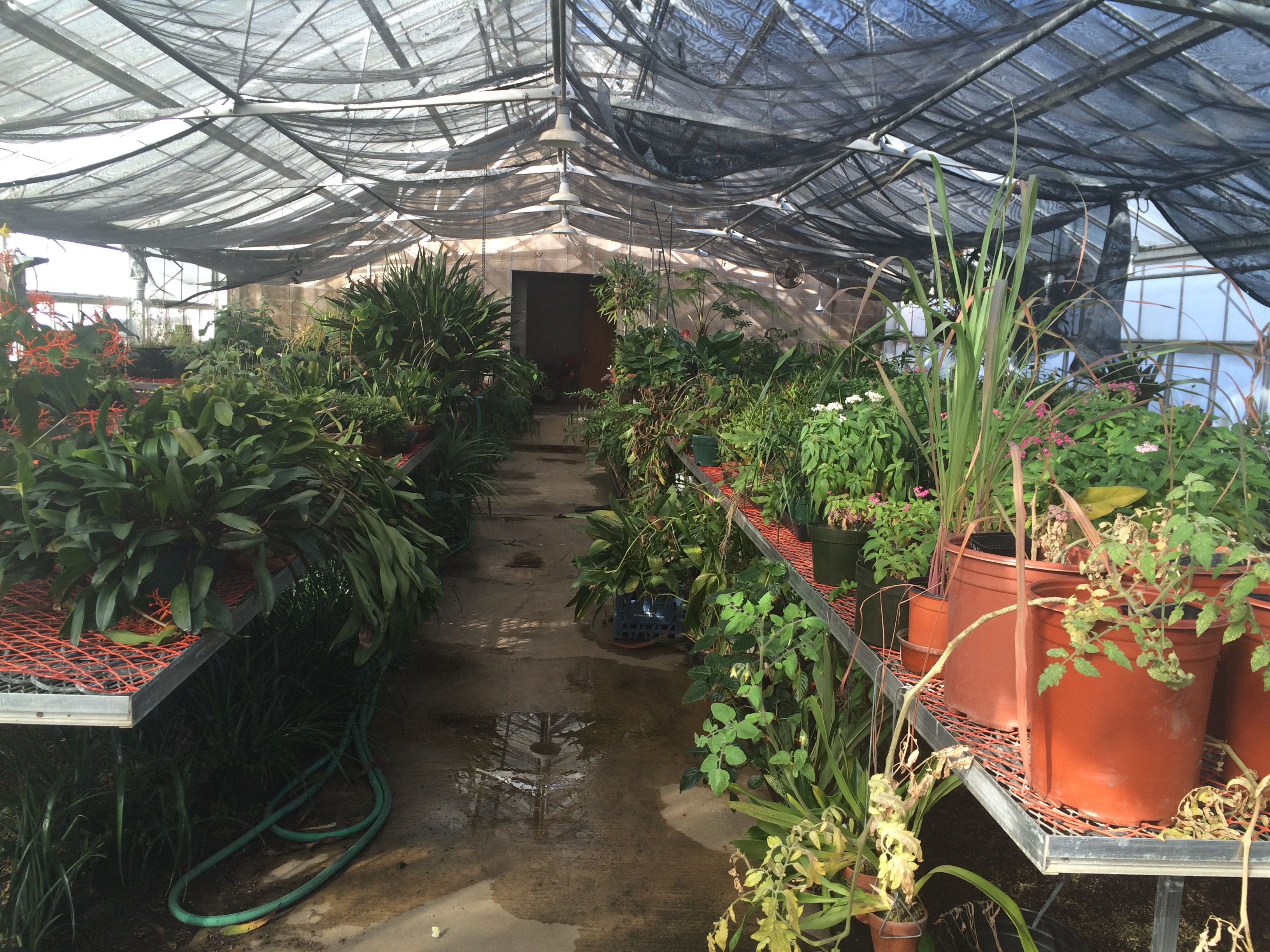 Inside of green house